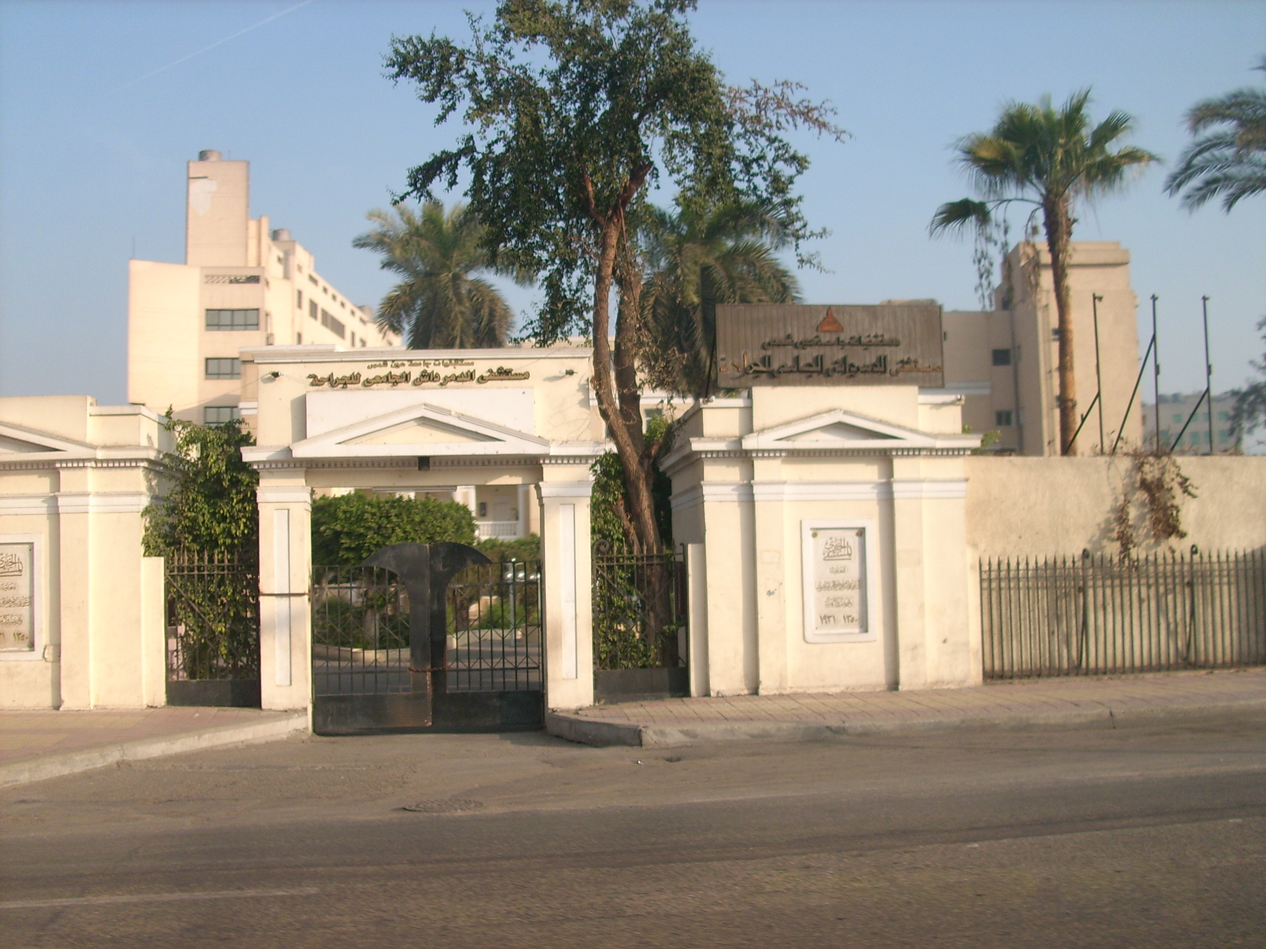 Ain Shams Univ Demedash Hospital